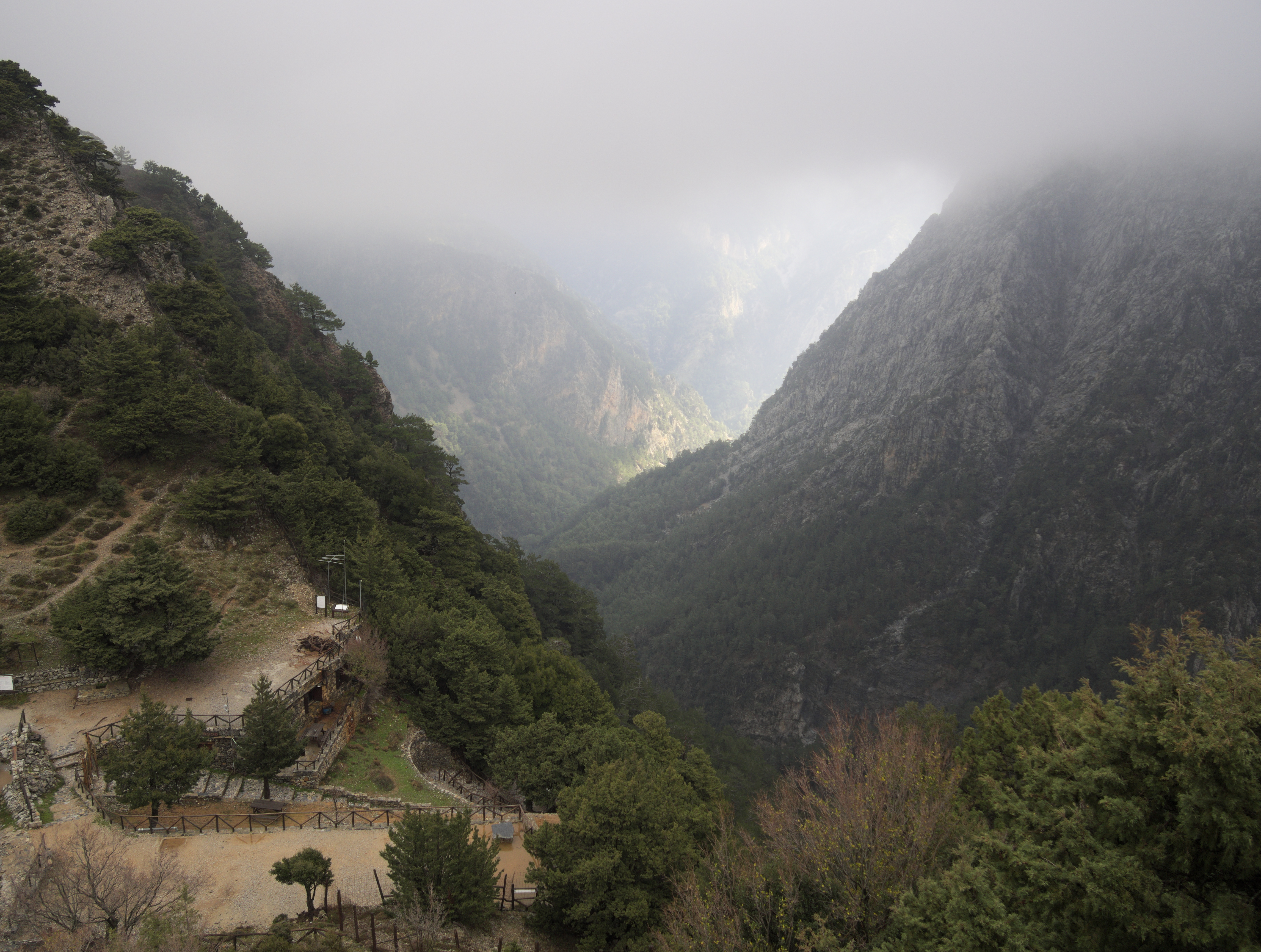 View of Samaria Gorge from the entrance of the path, at Xyloskalo, during a winter day with fog.